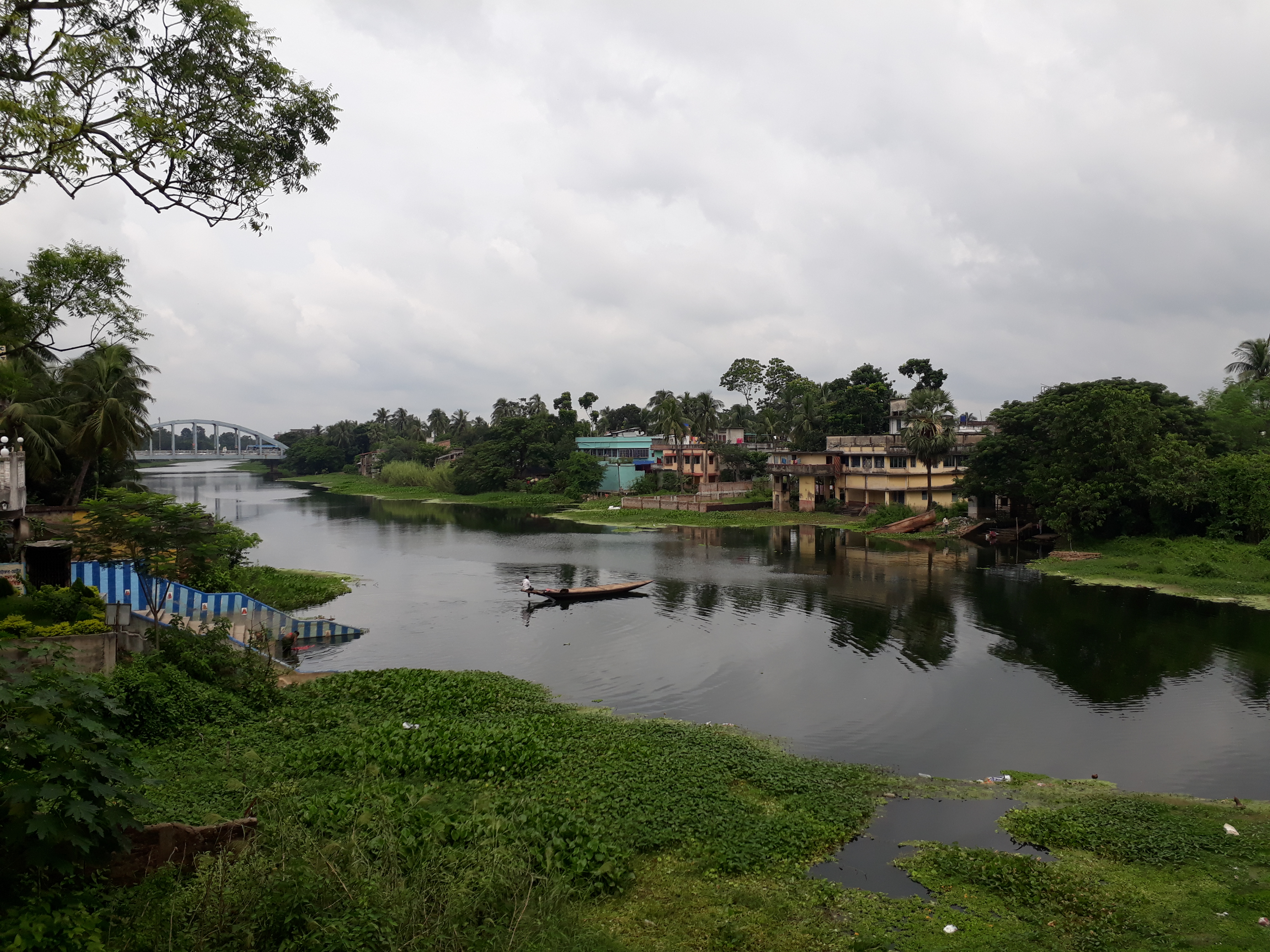 Icchamati River at Bangaon, North 24 Parganas, West Bengal